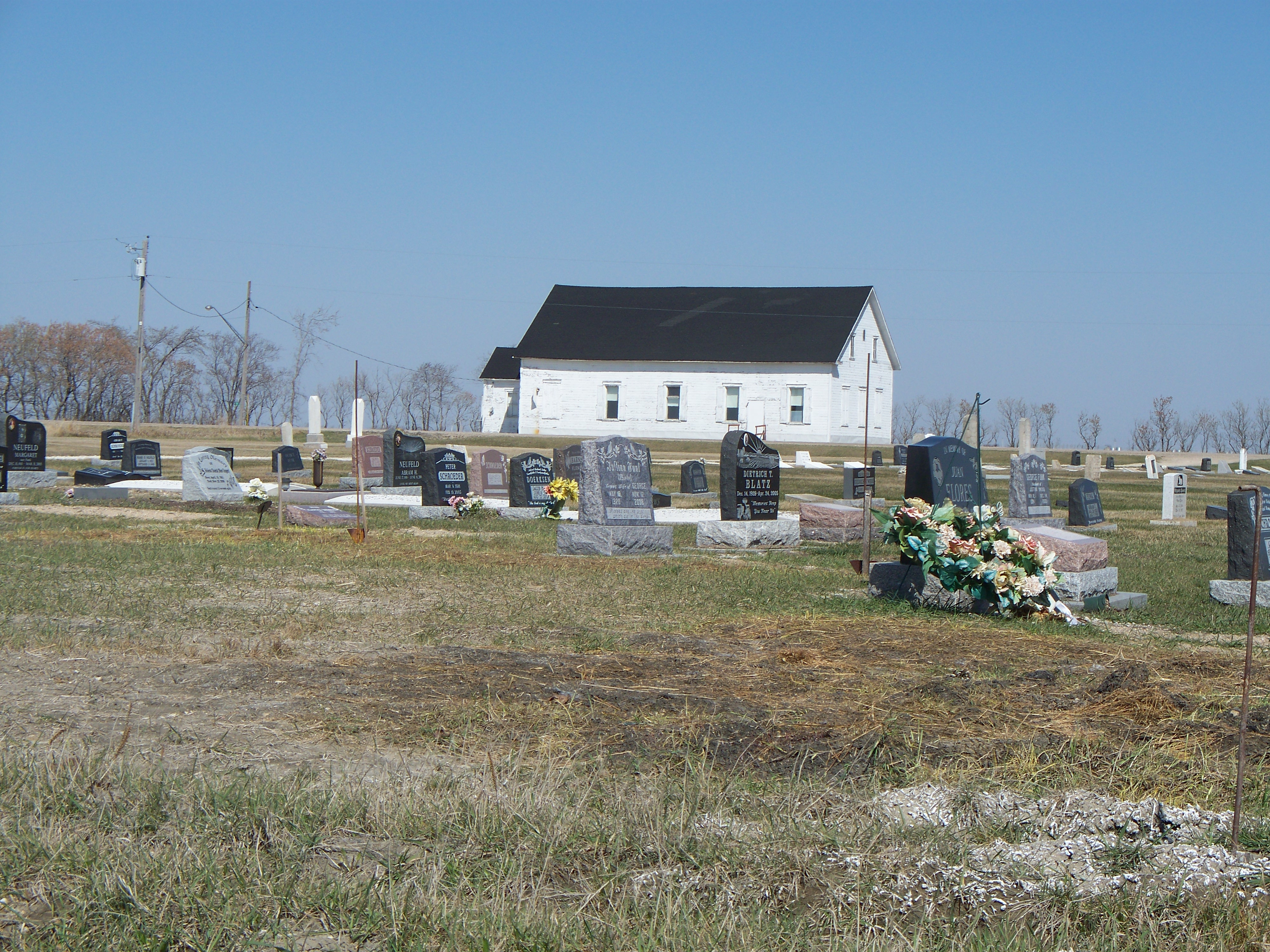 Randolph CMC & Cemetery (2010)